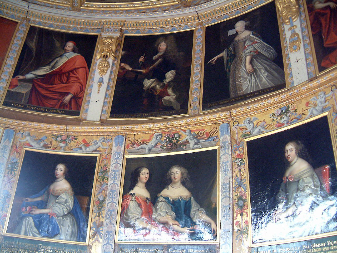 Chateau de Bussy-Rabutin, Bussy le Grand, Bourgogne, France